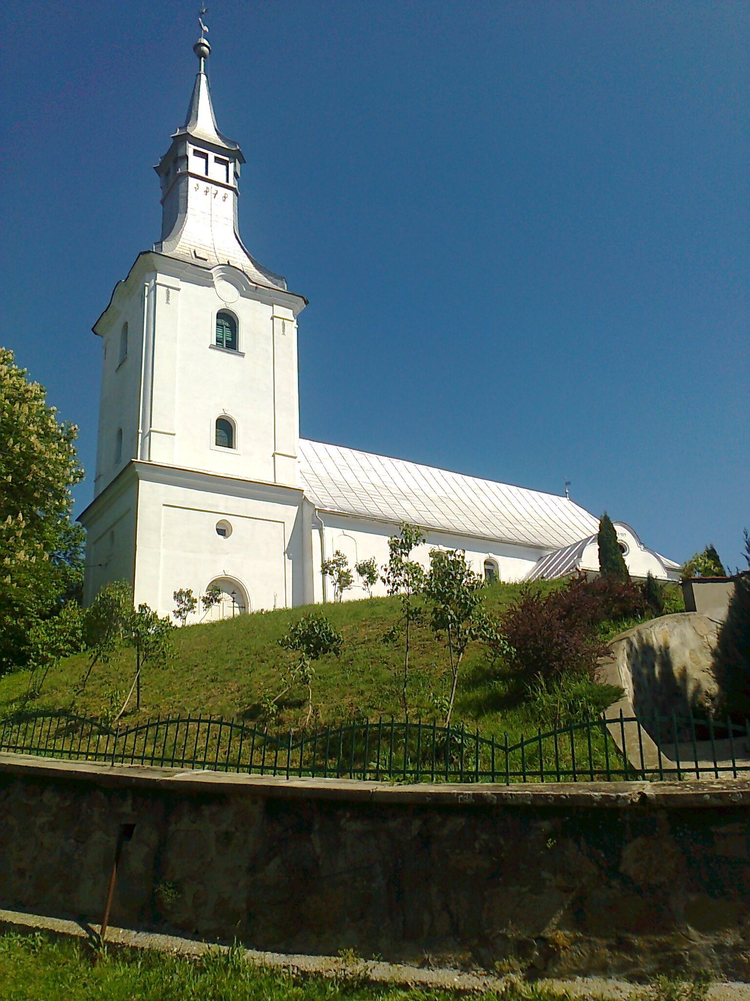 Reformed Curch in Ip (Romania) built in XV. century